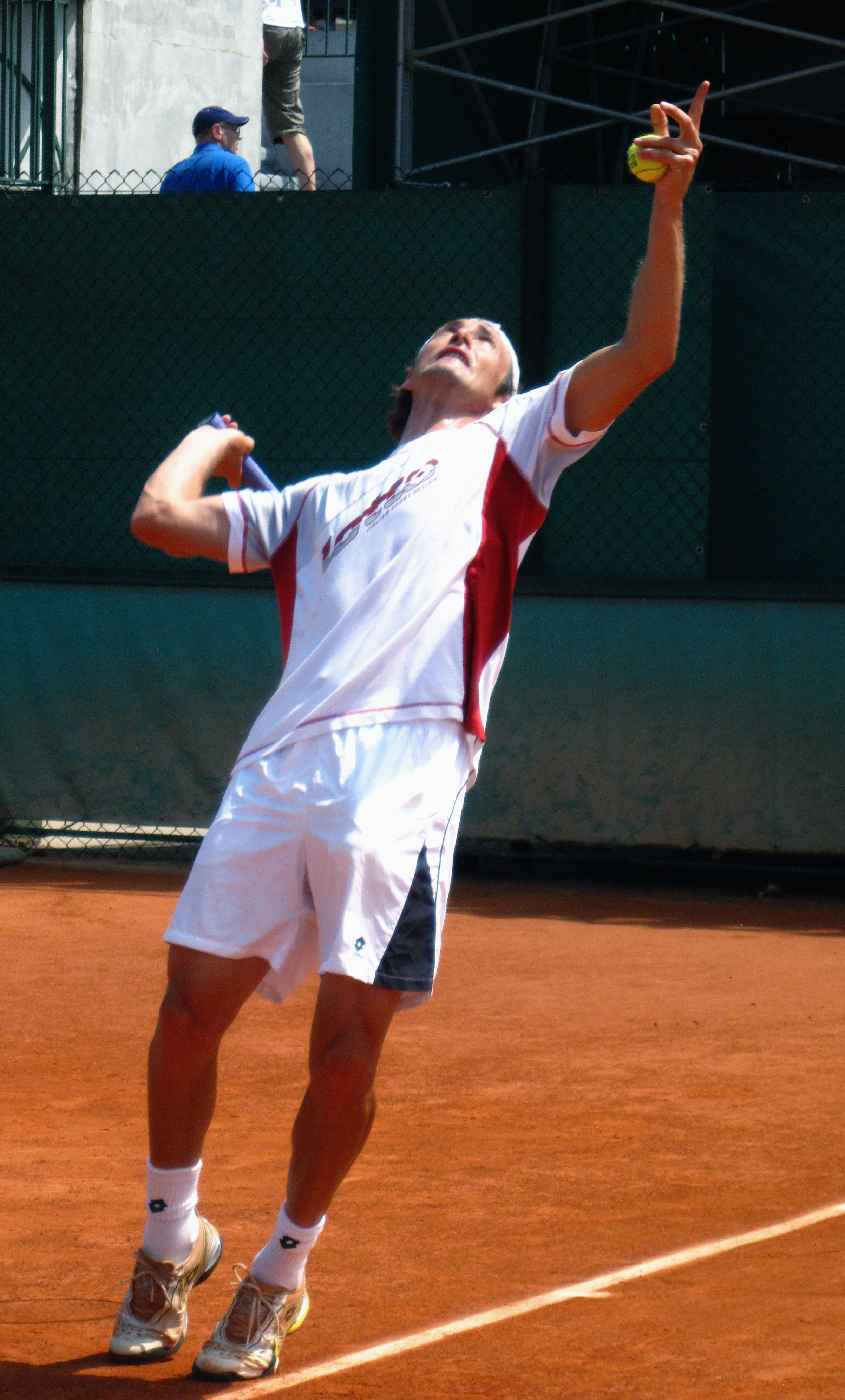 Juan Carlos Ferrero at 2009 Roland Garros, Paris, France